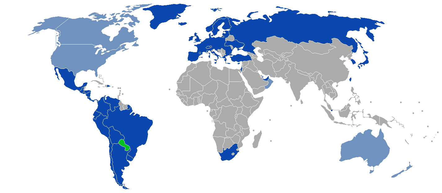 Visa policy of Paraguay Paraguay Countries with visa-free access to Paraguay Visa on arrival to Paraguay Visa required for entry to Paraguay